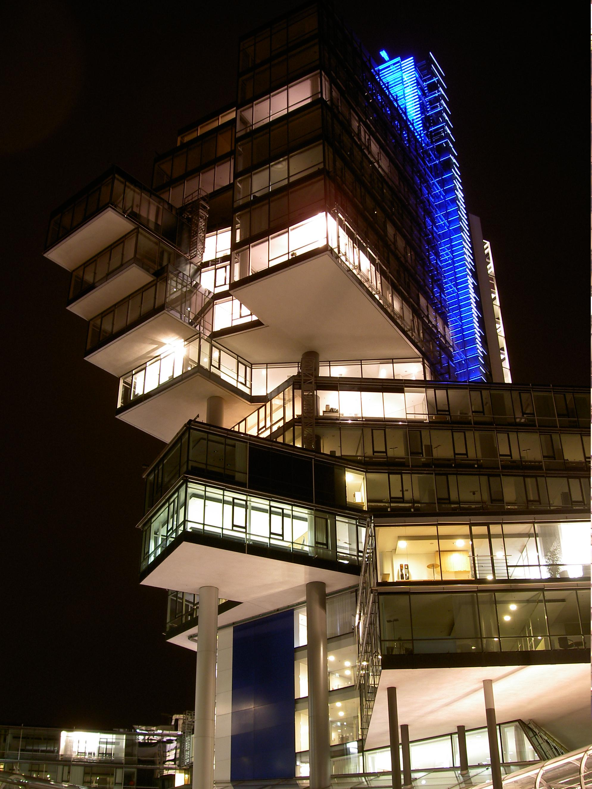 Norddeutsche Landesbank Hannover